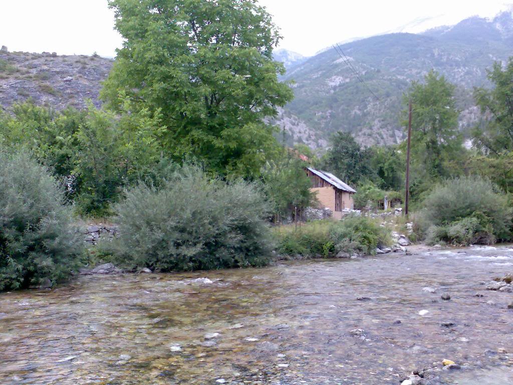 Village of Belica, Poreche region, Republic Macedonia